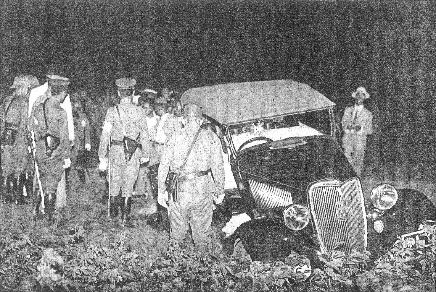 Oyama Incident. August 9, 1937